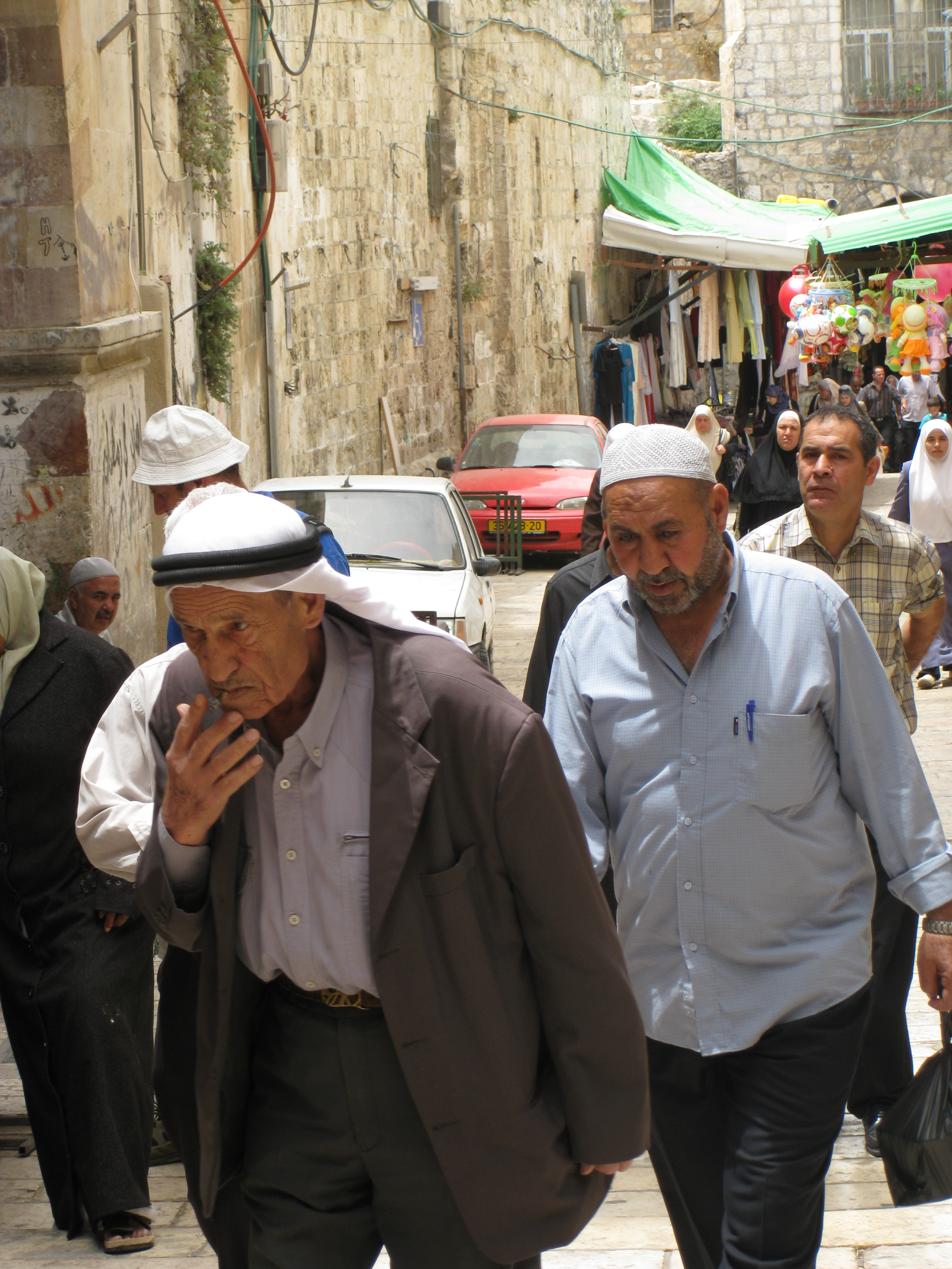 Old Jerusalem, Muslim Quarter, Aladdin street הרובע המוסלמי בירושלים